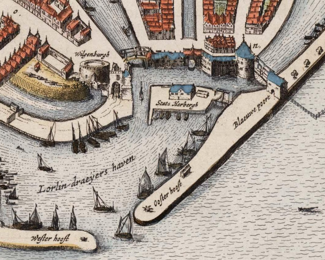 Map of Enkhuizen, detailed view around the Eiland and the present-day Drommedaris.